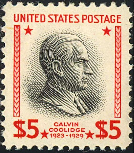 US Postage stamp: Calvin Coolidge, Issue of 1938, $5